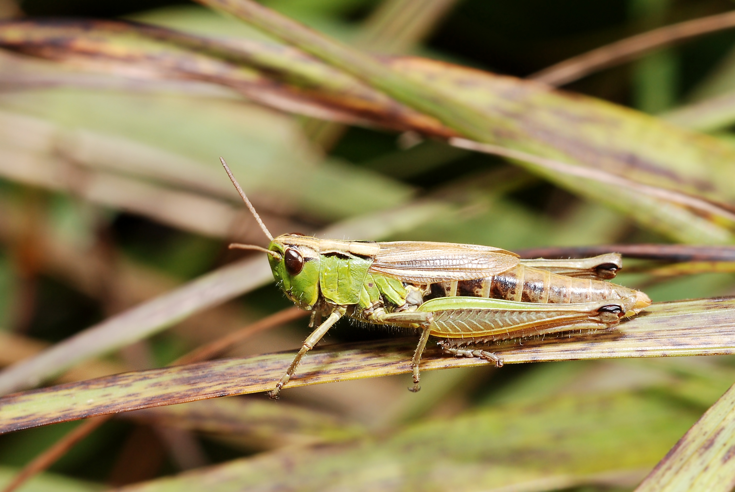 A female of the grasshopper Chorthippus montanus (Orthoptera Acrididae Gomphocerinae) Locality : Fagne de la Polleur, Theux, Belgium